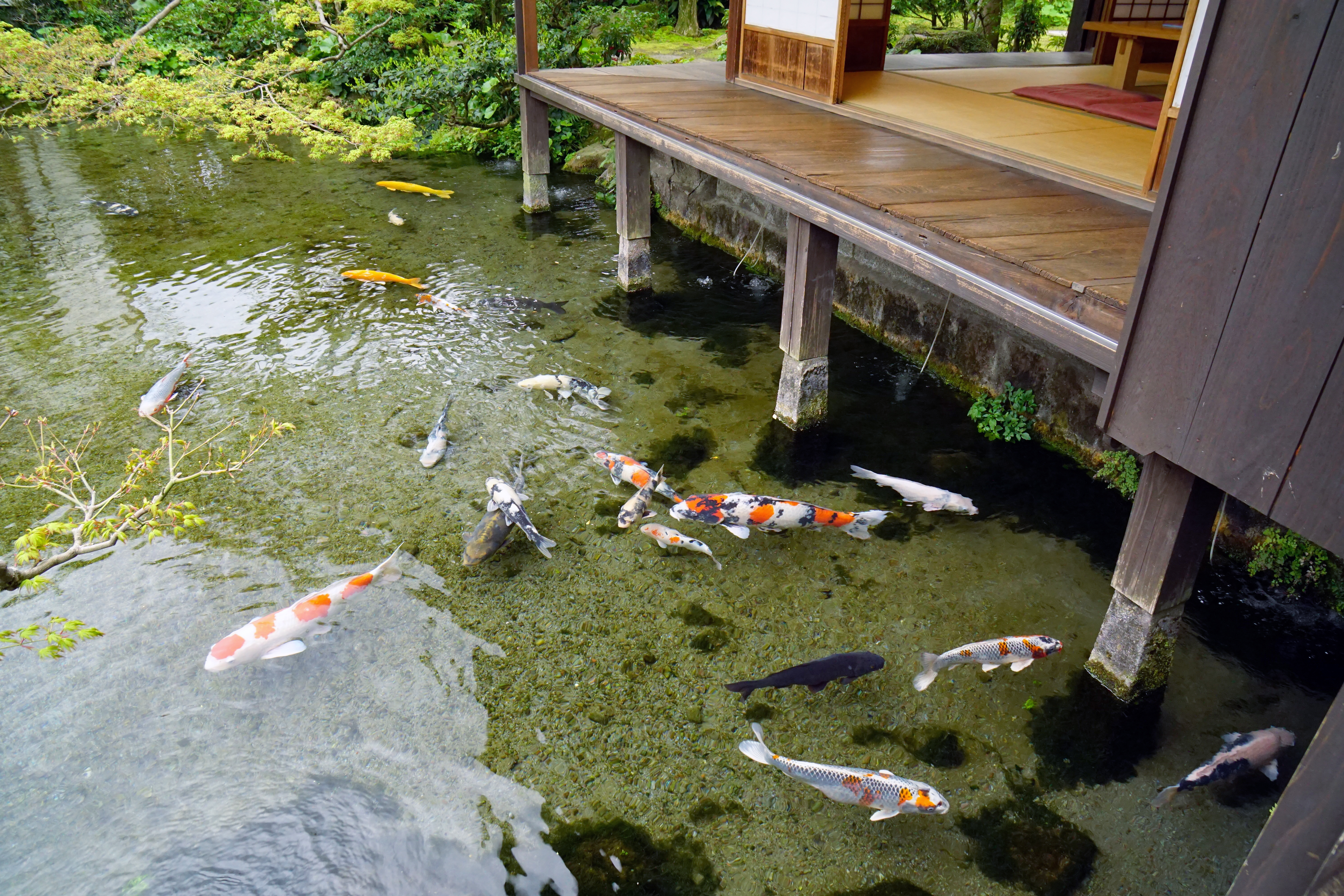 Shimeiso, Garden with Springs in Shimabara, Nagasaki prefecture, Japan.